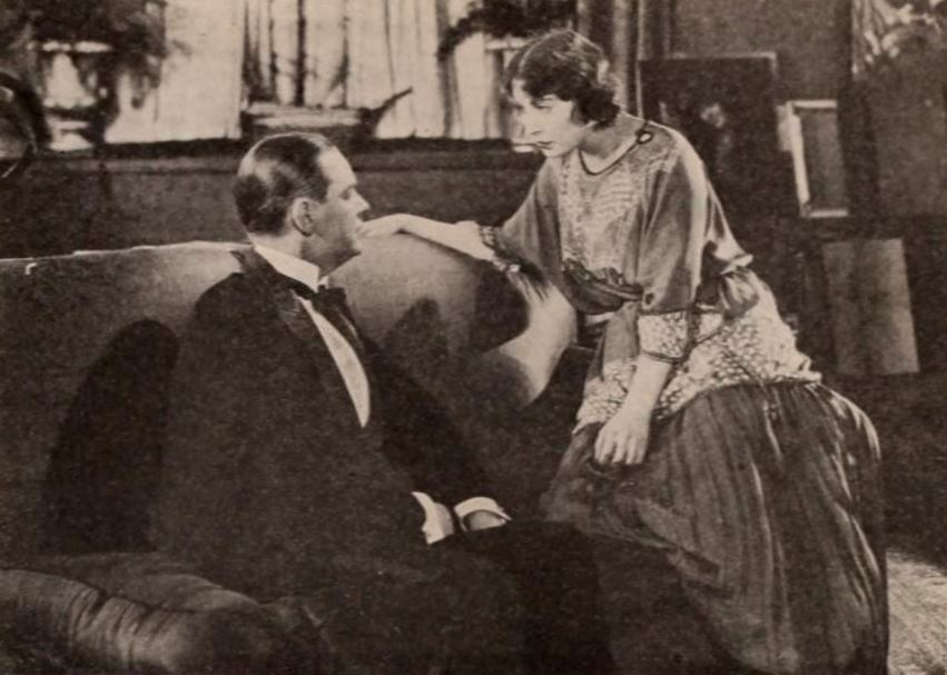 Still from the American drama film The Dark Mirror (1920) with Huntley Gordon and Dorothy Dalton, on page 73 of the May 29, 1920 Exhibitors Herald.